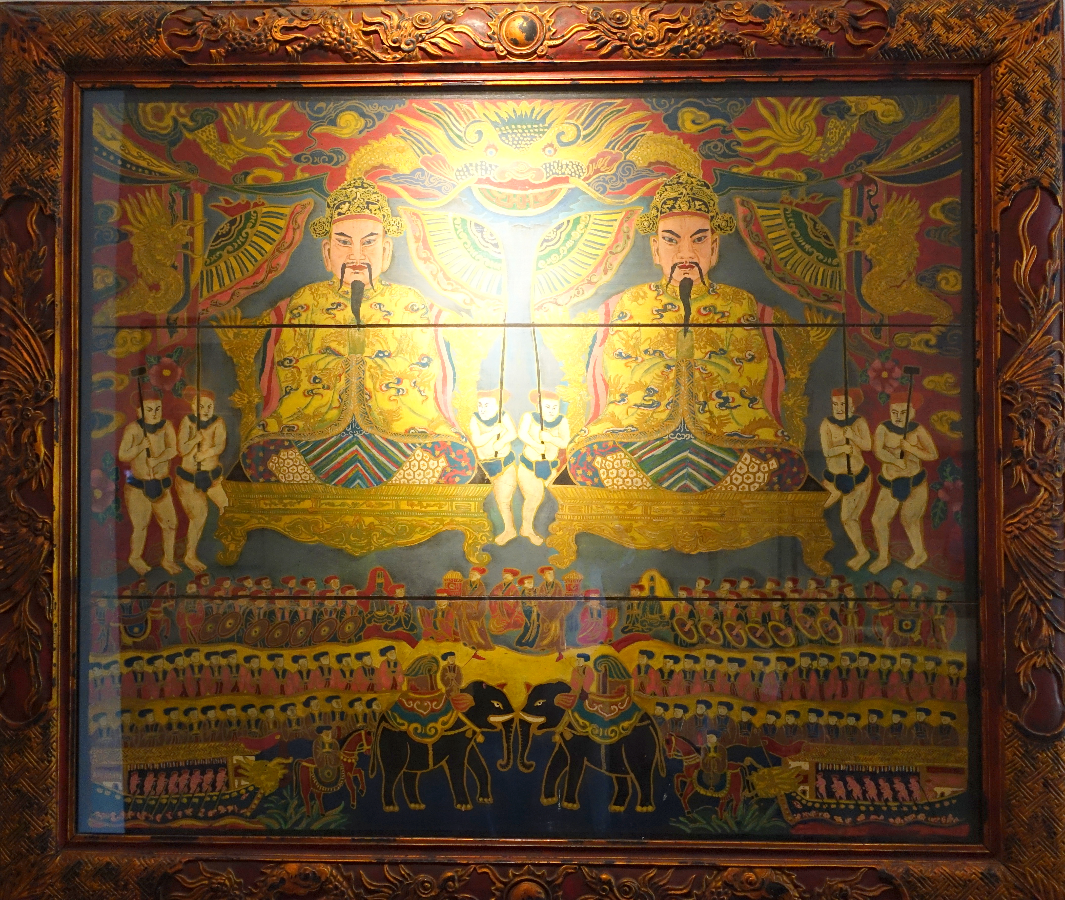 Roc kings (vua Rộc), Kien Xuong district, Thai Binh province, 18th century AD, lacquered wood. Exhibit in the Vietnam National Museum of Fine Arts - Hanoi, Vietnam. This artwork is old enough so that it is in the public domain.